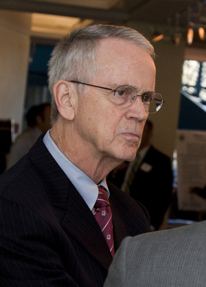 Charles M. Vest, then president of the National Academy of Engineering, visits the College of Engineering at UC Davis.